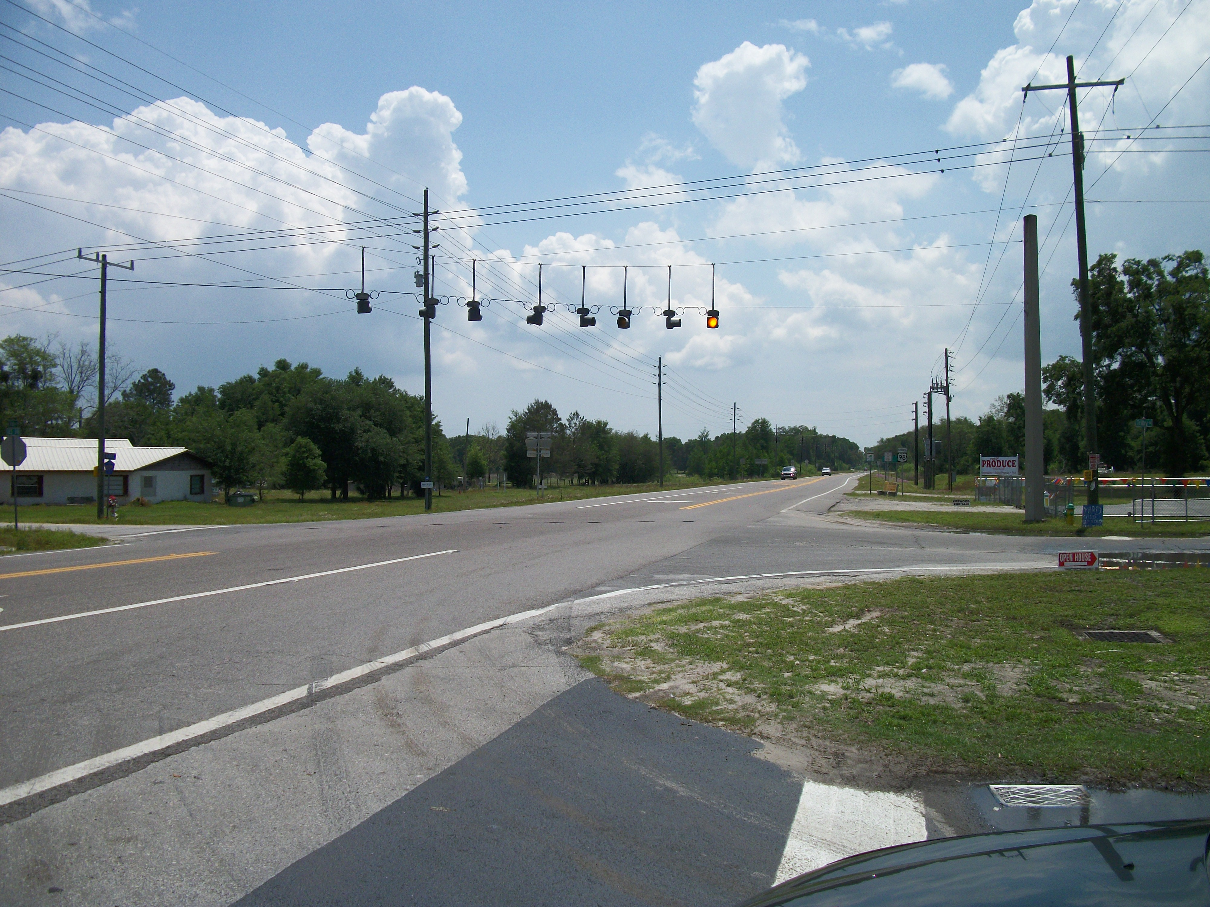 The intersection of U.S. Route 98 and Pasco County Road 575 in Trilby, Florida, looking southeast.